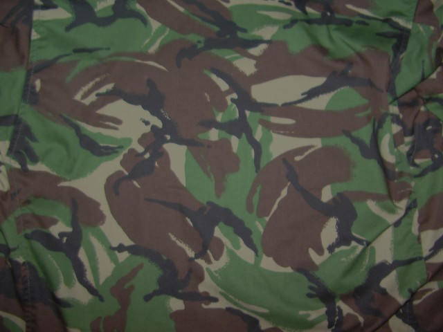 British Soldier 95 -pattern